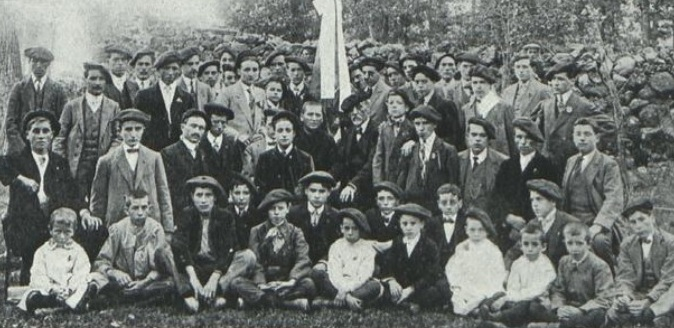 requete youth from Olot